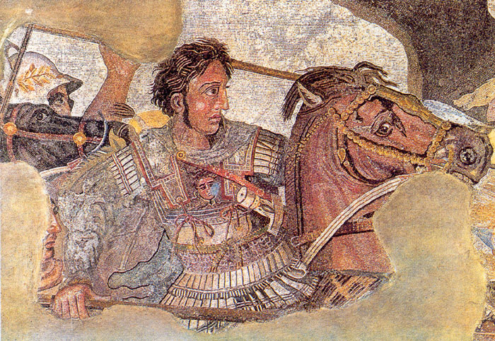 Detail of the Alexander Mosaic, representing Alexander the Great on his horse. There is a scared man behind Alexander, and the man's head in Alexander's armor is a representation of Medusa. His horse is named Bucephalus. House of the Faun, Pompeii, c. 100 AD.